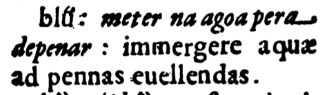 An example of an apex being combined with an acute mark (rising tone) in Dictionarium Annamiticum Lusitanum et Latinum (1651). (Entry “blu᷄́”, column 47, PDF page 35.)